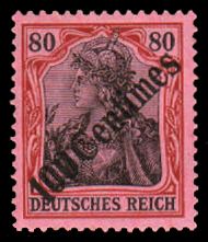 Postage stamp of German Empire post offices in the Ottoman Empire, 100 centimes, 1908